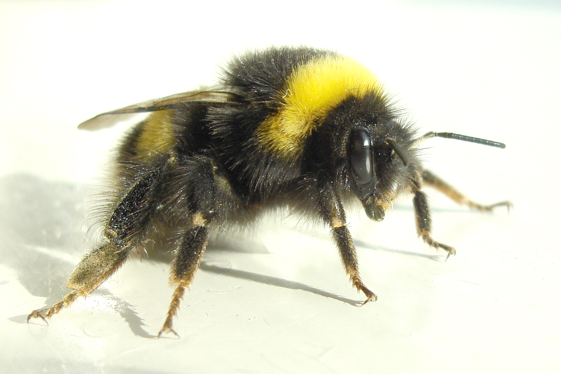 A bumblebee. Photographed in Ireland. Probably Bombus terrestris